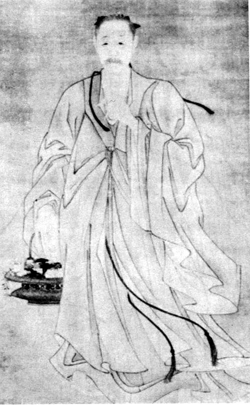 Guo Fen, scholar of the Qing Dynasty.